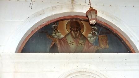 Icon of Saint Spyridon above the door of his church in Nafplio. Taken in July 2002 by Jpbrenna.